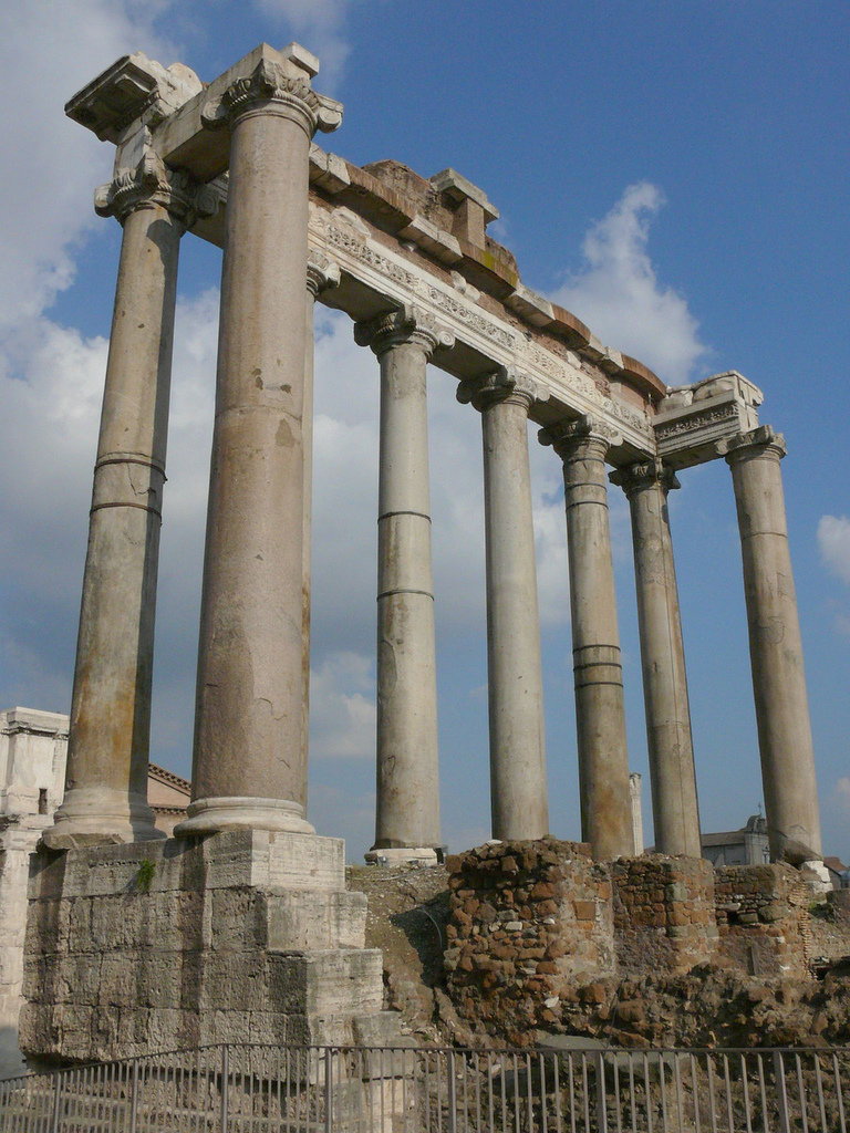 Temple of Saturn in Rome